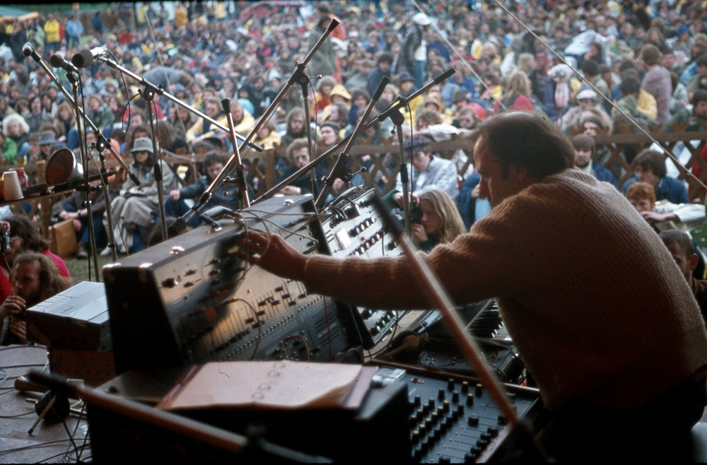 Harald Bojé, 1978 at new jazz festival moers (Moers festival)